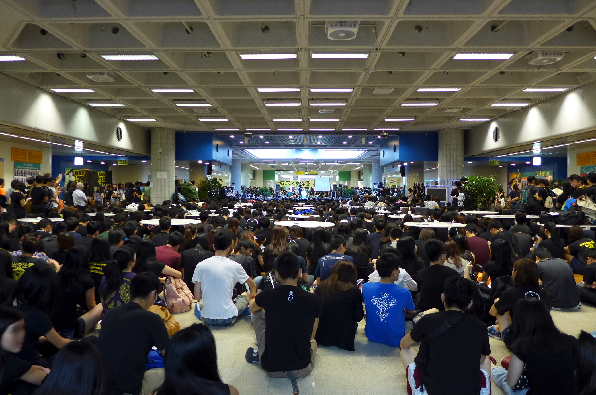 HK CityU Student protest 20140929